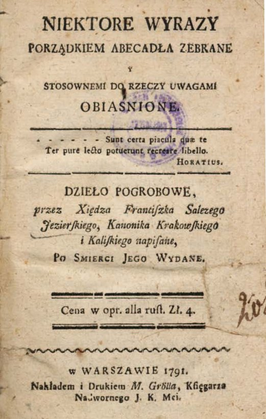 Title page of Niektóre wyrazy porządkiem abecadła zebrane i stosownymi do rzeczy uwagami objaśnione by Franciszek Salezy Jezierski